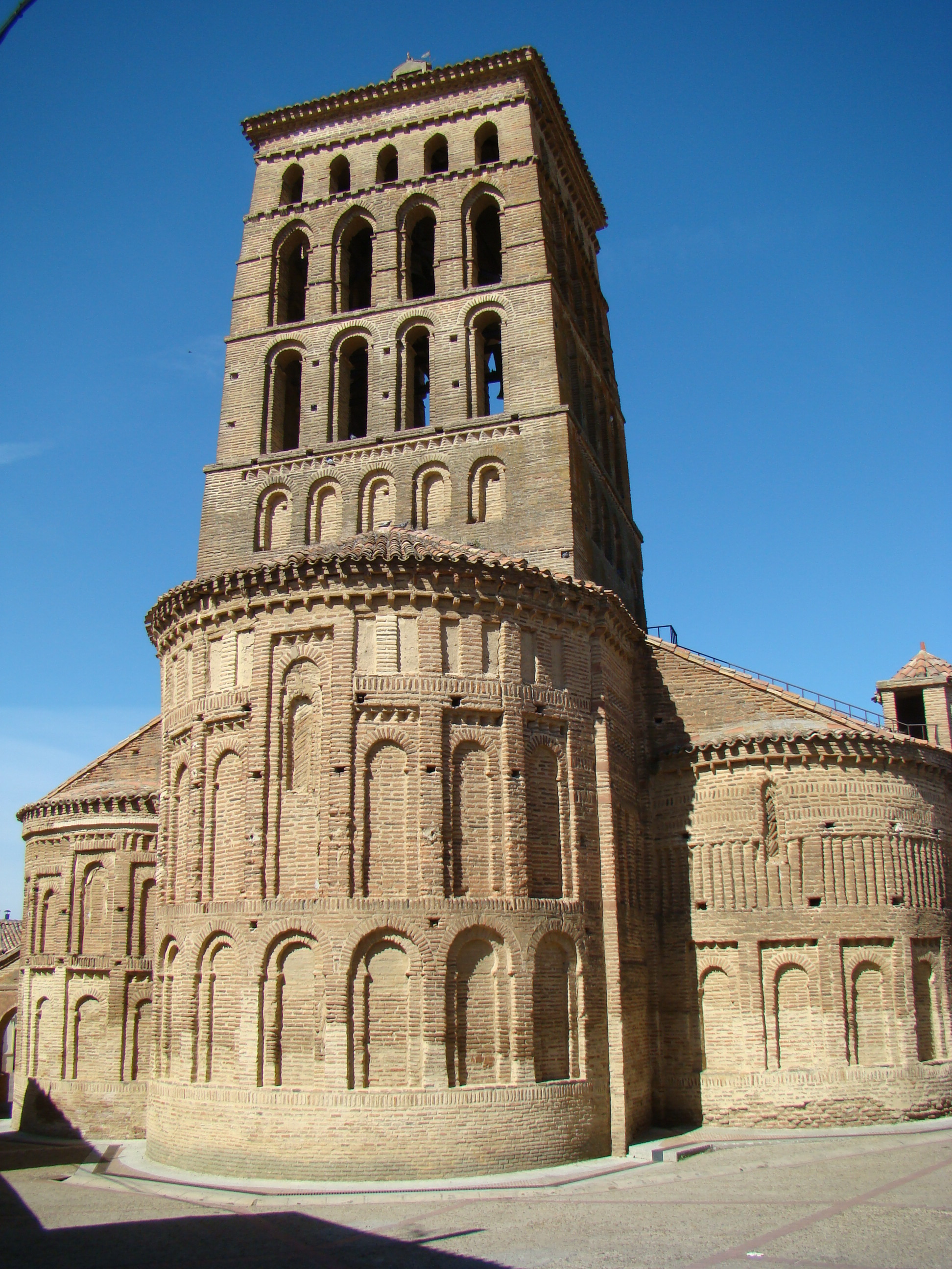 Church of San Lorenzo en Sahagún (León, Spain), romanic-mudéjar style.